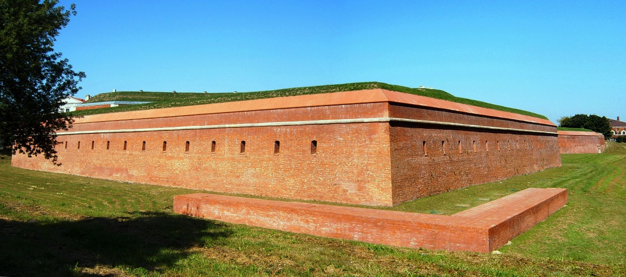 Bastion VII in Zamość (after repairs in 2010)